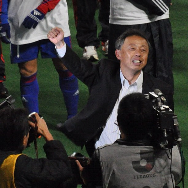 Kiyoshi_Okuma at Ajinomoto Stadium